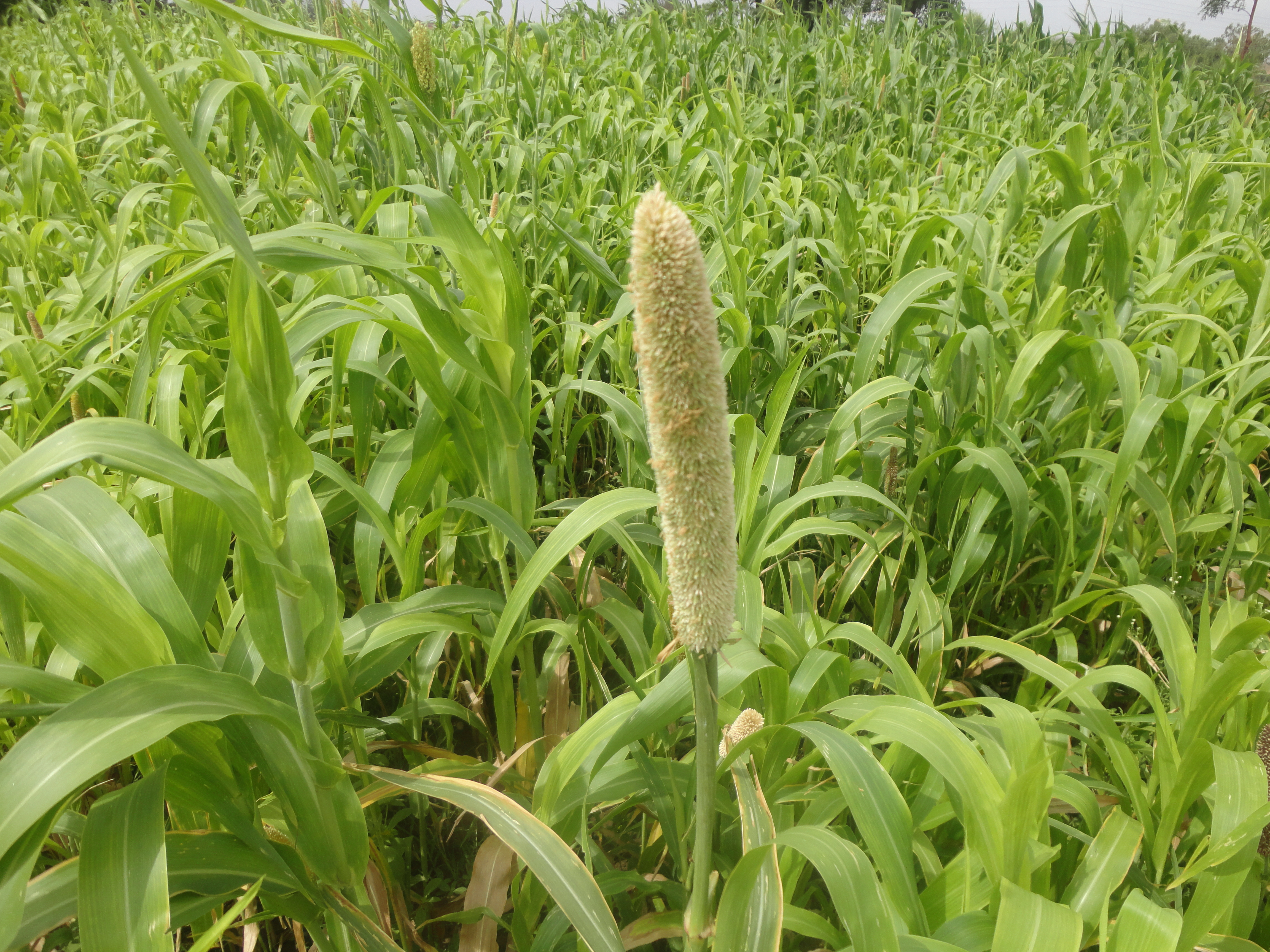 Jowar[sorghum] bud at initial stage